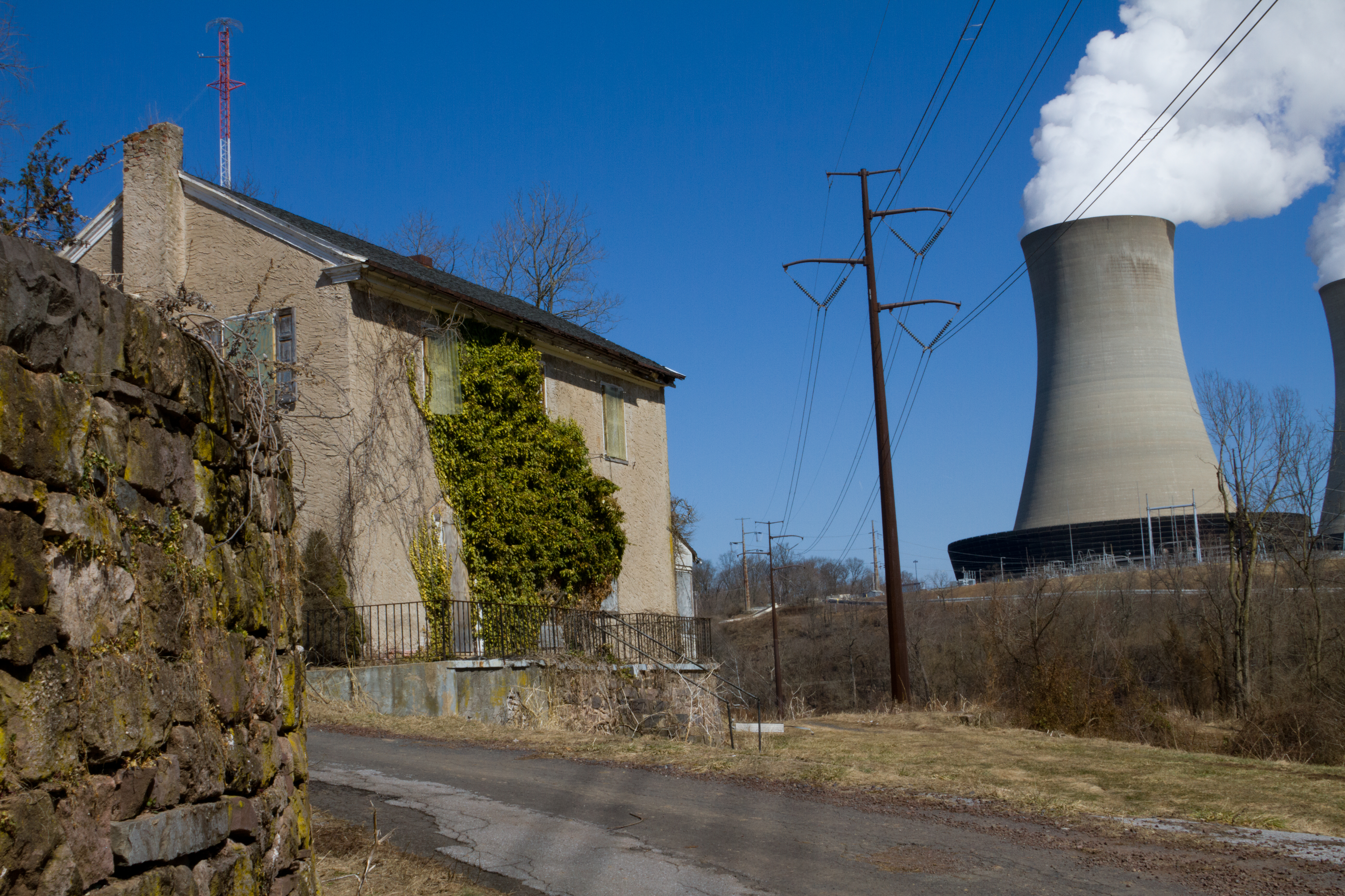 Abandoned canal store at Frick's Lock with Limerick Nuclear Power Plant in the background